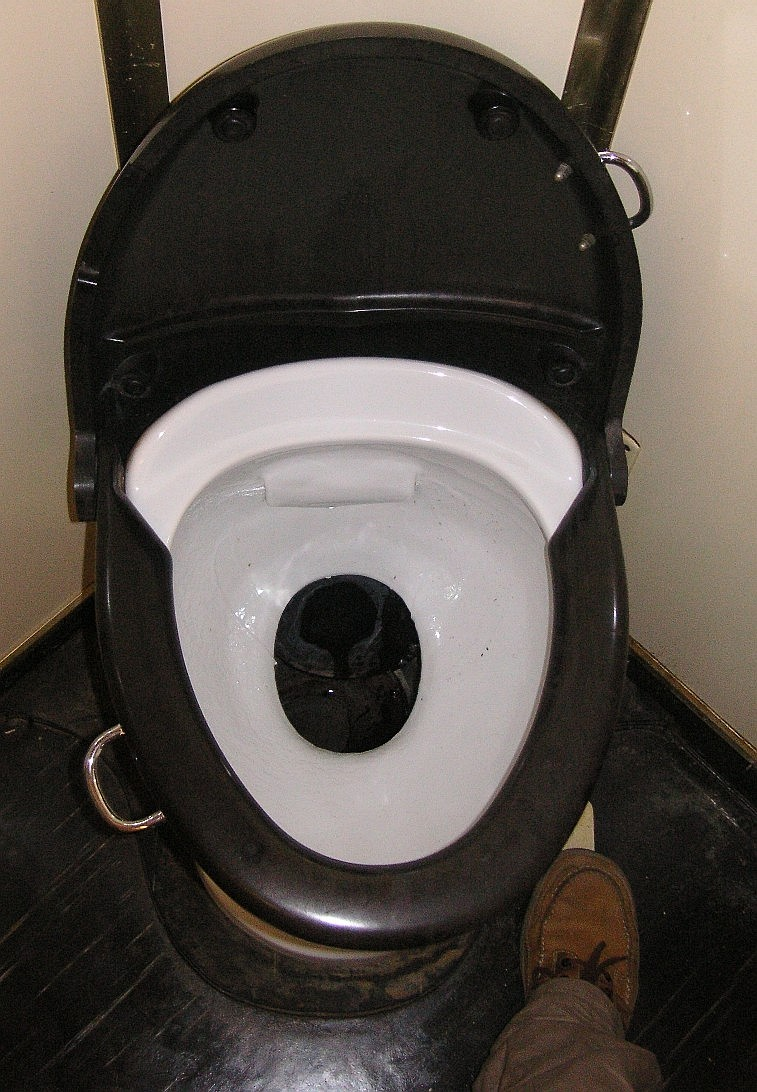 An old-fashioned toilet facility on board an Austrian passenger train to Vienna. Photo by KF, 26 April 2005.